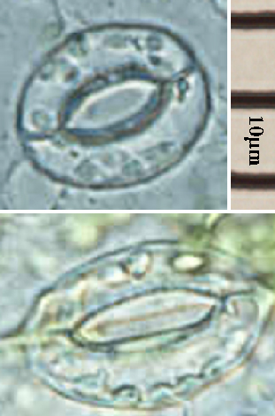 Stomata of Arabidopsis. Upper:opening stoma, Under:closed stoma